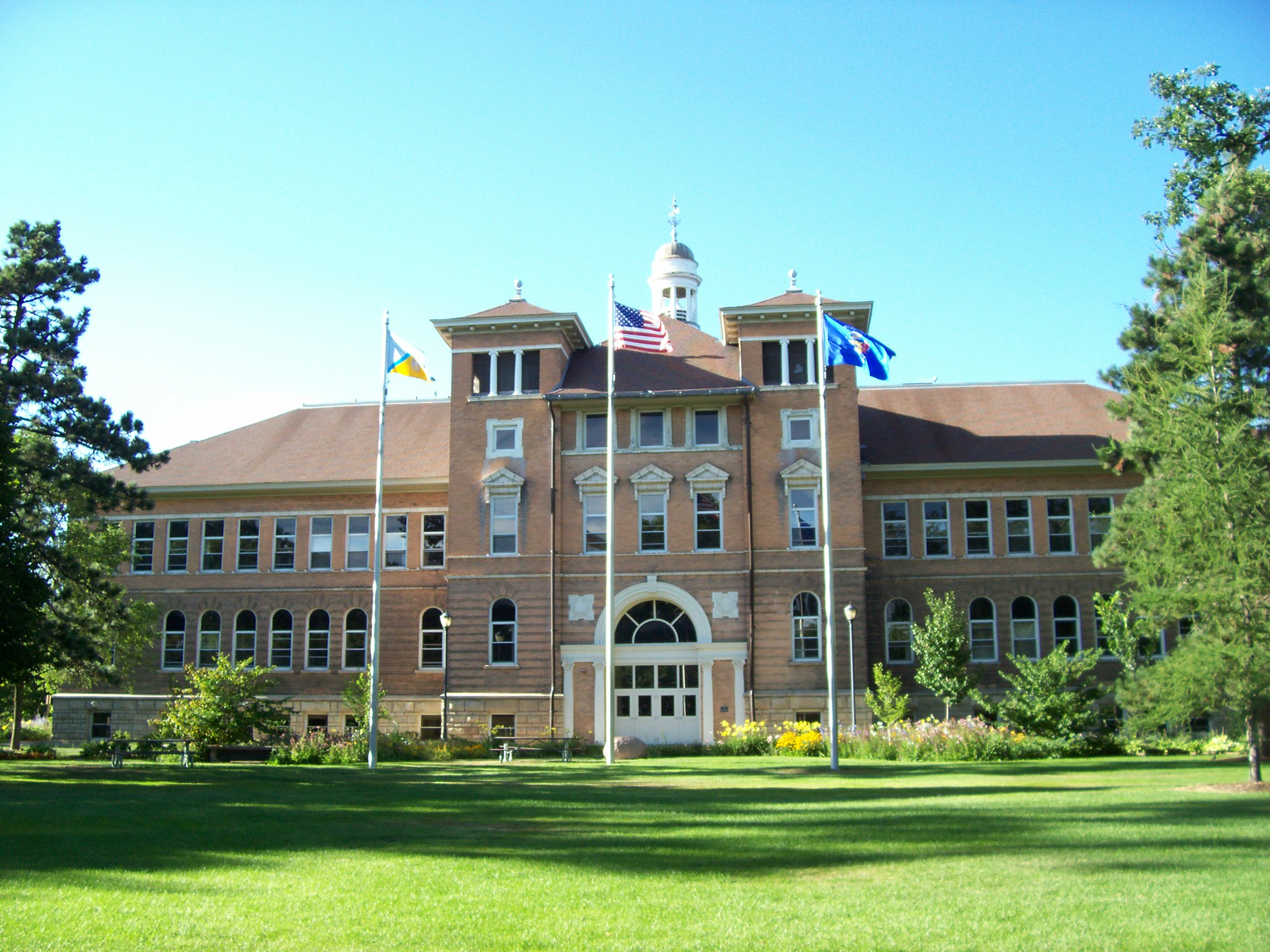 Old Main Hall at the University of Wisconsin-Stevens Point in Stevens Point, Wisconsin, USA, on U.S. Route 10.